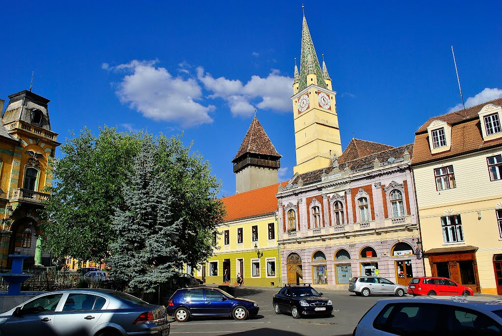 View towards Turnul Clopotelor (the Bell`s Tower) and Turnul Trompeţilor (the Trumpet`s Tower)